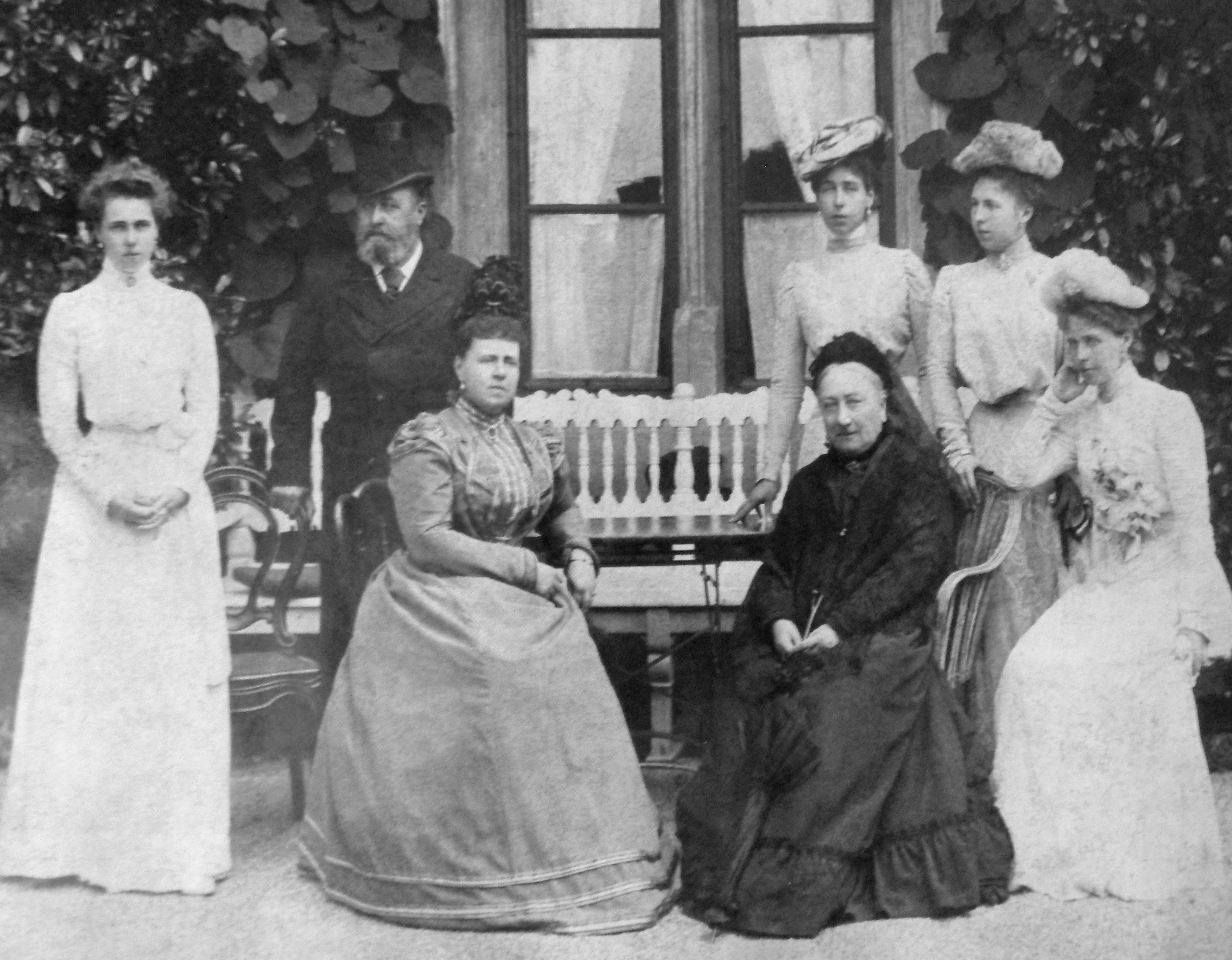 Alfred Duke of Saxe Coburg Gotha at Rosenau with his wife, their four daughters and Alexandrine dowager duchess of Saxe Coburg Gotha.